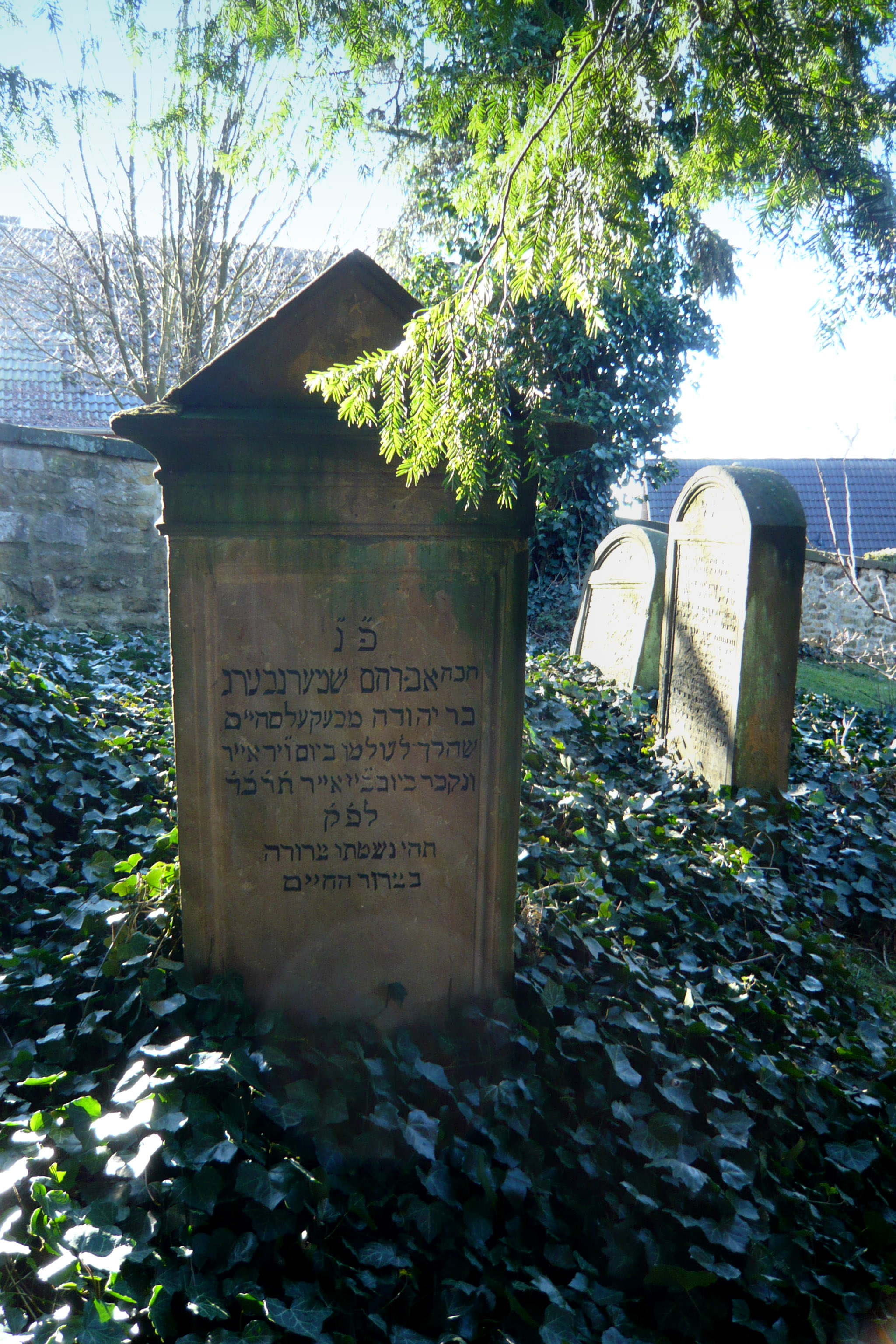 Jewish cemetery in Oerlinghausen, Germany This is a photograph of an architectural monument.